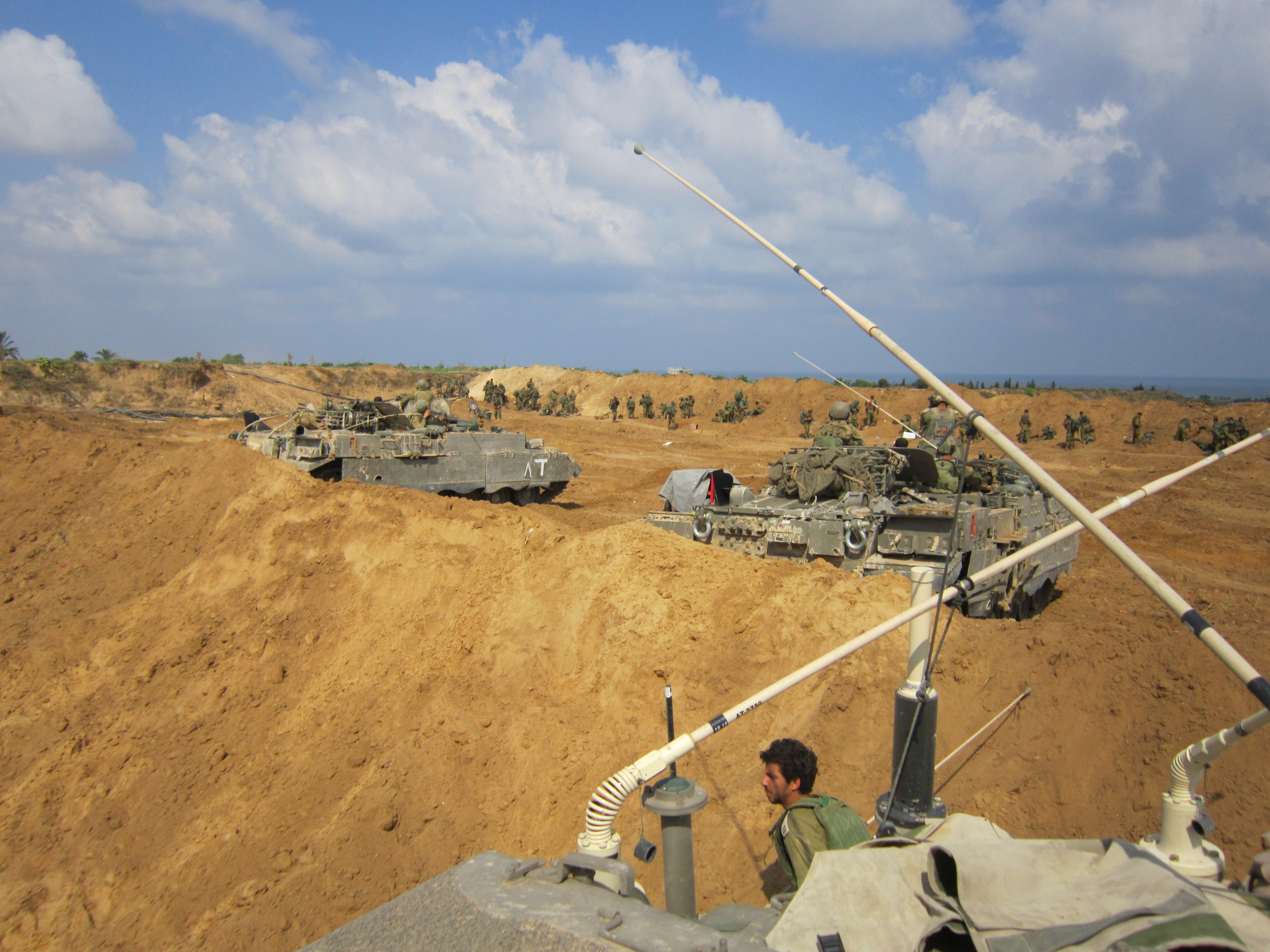 The 401 armored Brigade operates near the Gaza border, 27/7/2014 For more updates: The Israel Defense Forces Facebook The Israel Defense Forces blog Follow us on Twitter